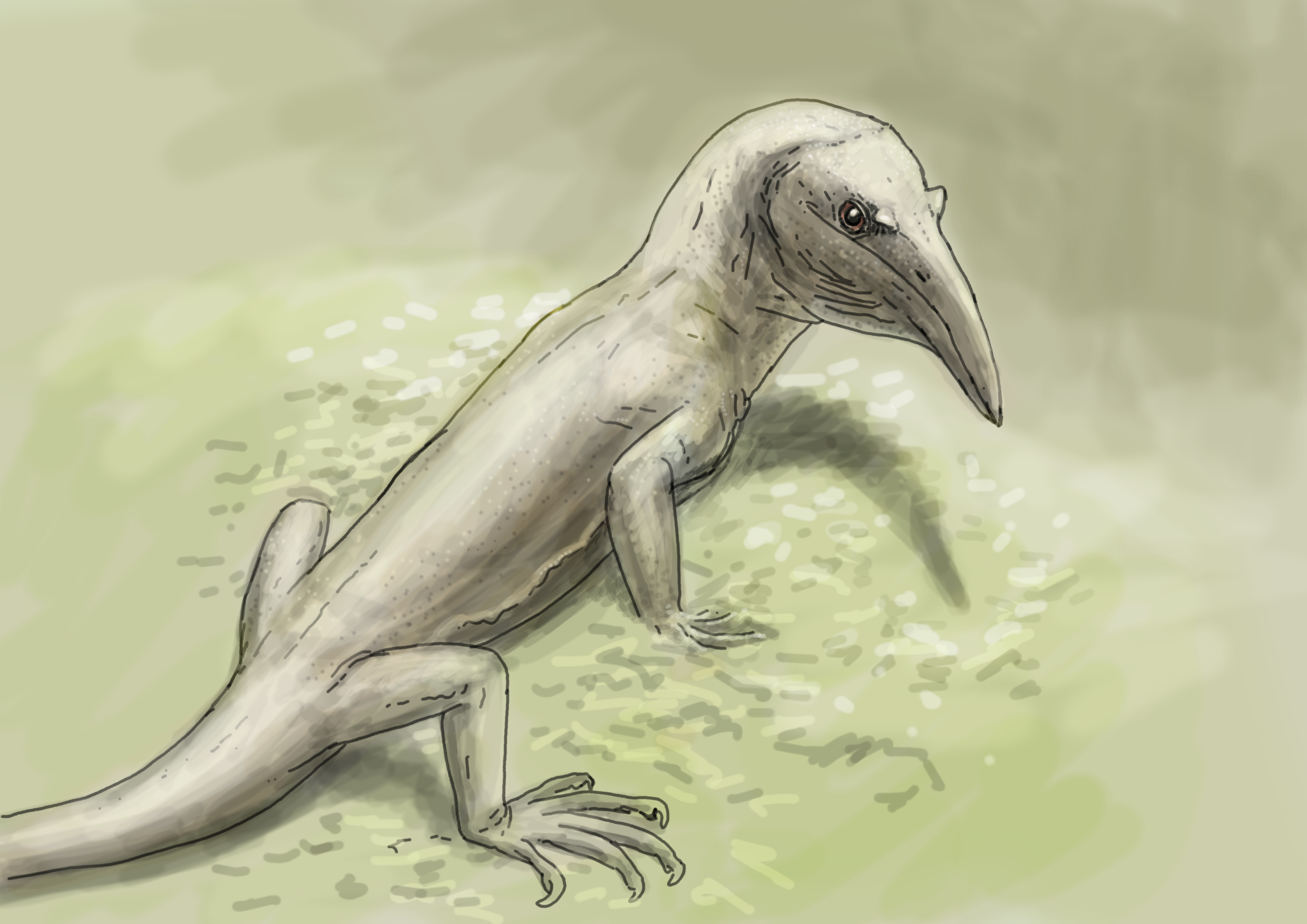 Possible life restoration.